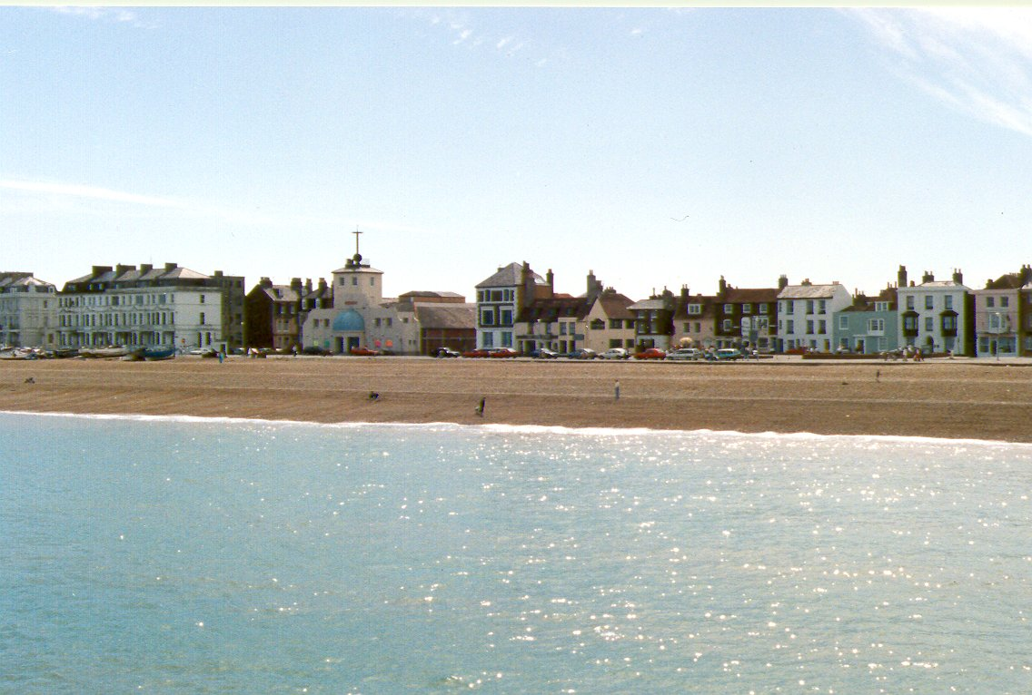 The seafront, with the time ball tower left of centre. Taken myself, probably around 2003